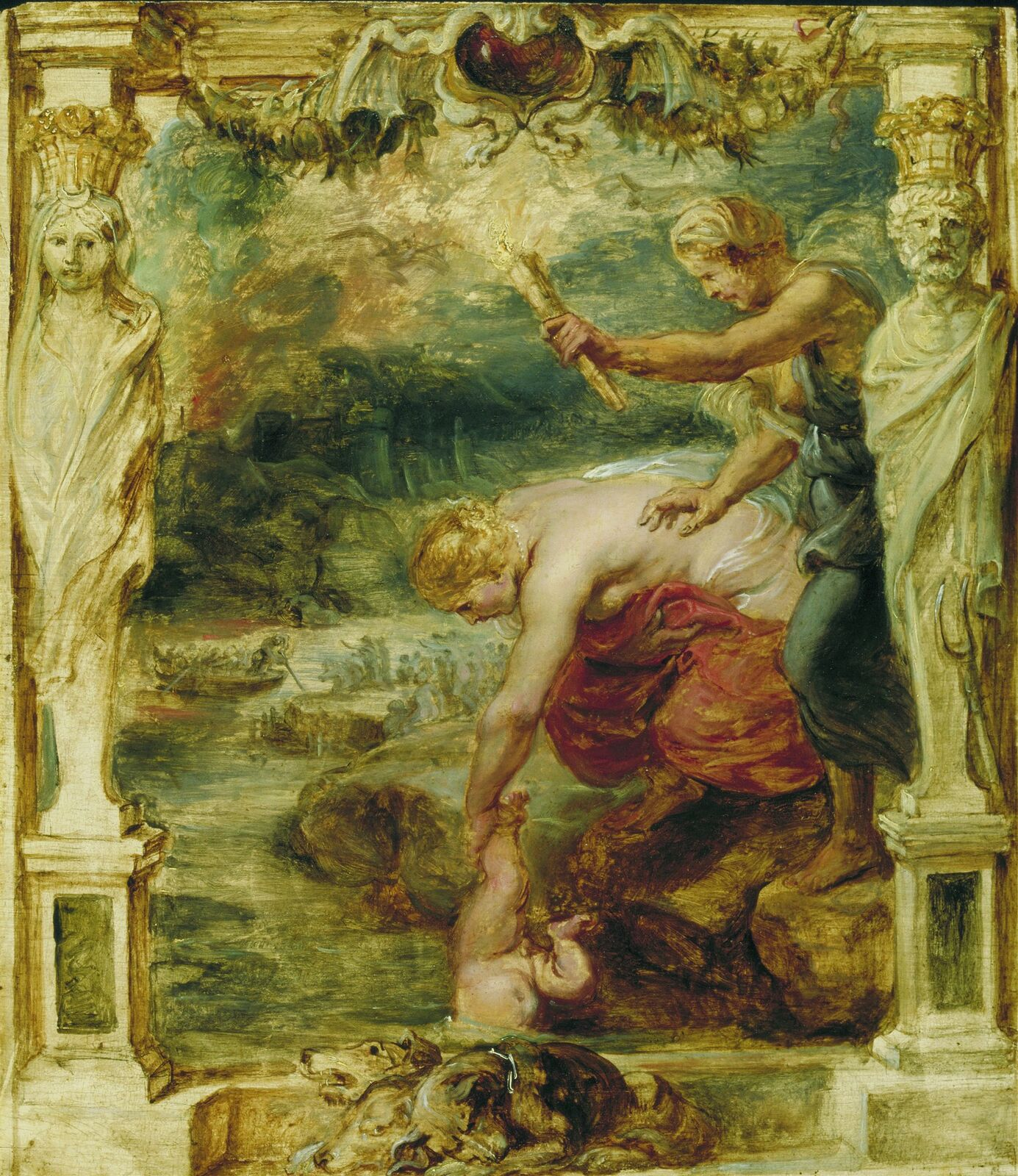 The goddess Thetis dipping the infant Achilles into the river Styx, which runs through Hades. In the background, the ferryman Charon can be seen taking the dead across the river in his boat. The scene was painted by Peter Paul Reubens around 1630/1635 as part of the Achilles Series